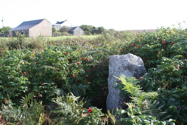 Roadside stone near Leswidden Farm A roughly shaped stone, apparently with an incised cross on the top but for what purpose it was cut is not known. The stone stands between the three manors or estates of Leswidden, Bartinney and Carnglaze and it may be a boundary-stone between these three manors (Langdon, A. G. (1896) Old Cornish Crosses. Truro: Joseph Pollard; p. 225). In the background is Carn Glaze Farm.